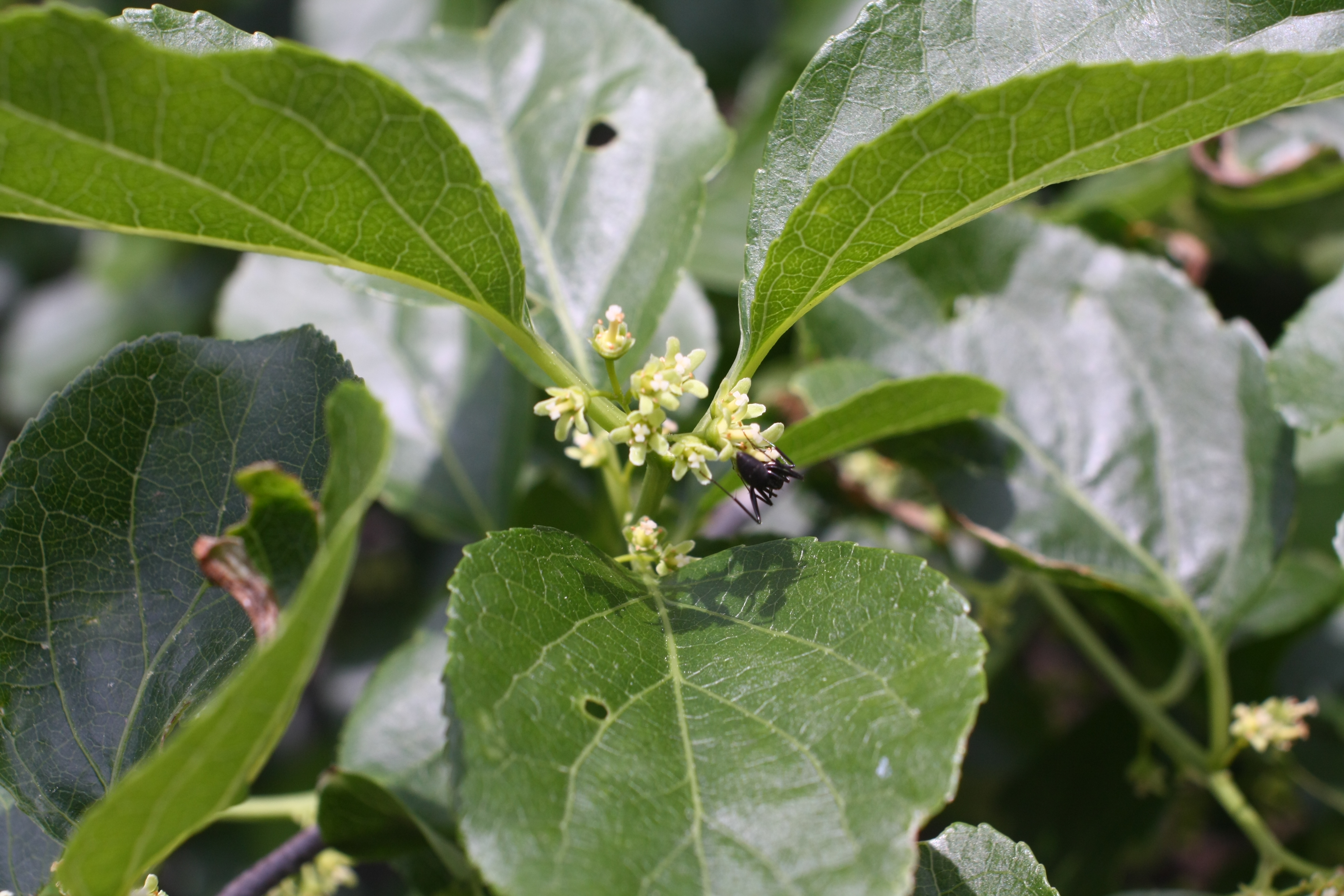 Celastrus orbiculatus